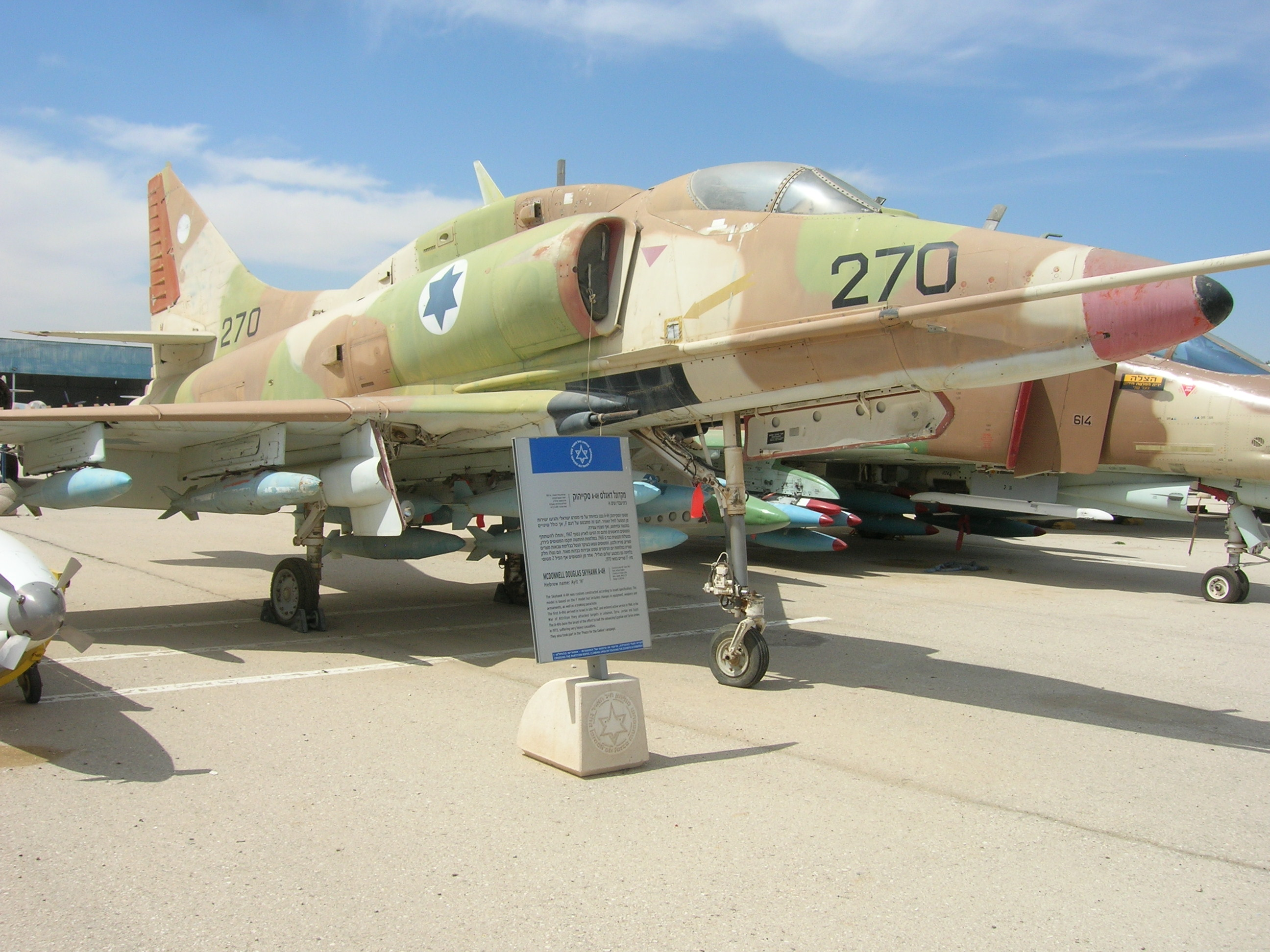 McDonnell Douglas A-4F Skyhawk Ayit F